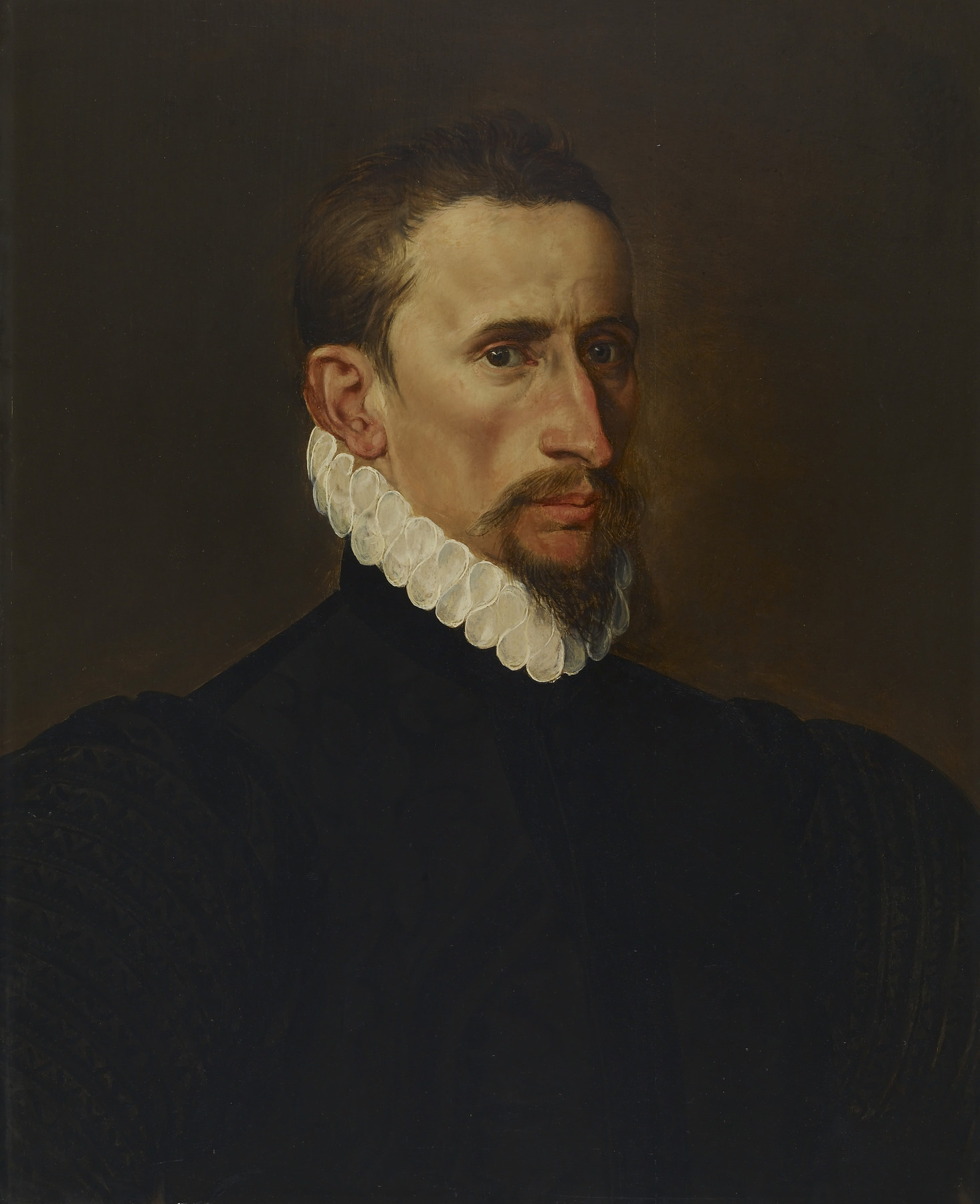 The severe costume with its high, closed neck, starched ruff, and discretely ribbed sleeves, along with a pointed goatee in the Spanish fashion suggest that the sitter is a wealthy Spaniard or Fleming attached to the government of the Spanish governor in Brussels. There were many Spanish noblemen and men from the rising middle class who served the Spanish royal governor or who were involved in overseas trade. Floris is chiefly known for his figure paintings, but he was also a subtle portraitist, his brushwork looser than the meticulous brushwork of many Flemish portraitists.